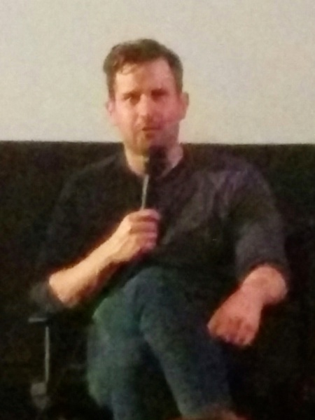 Richard Kelly at a Q&A session for Southland Tales at the Roxie Theatre in San Francisco, California, United States